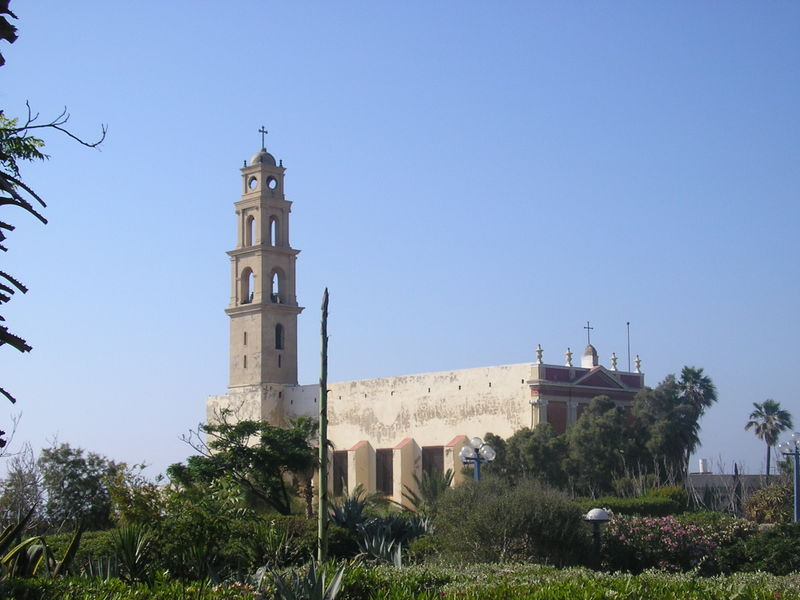 Saint Peter Church, Jaffa